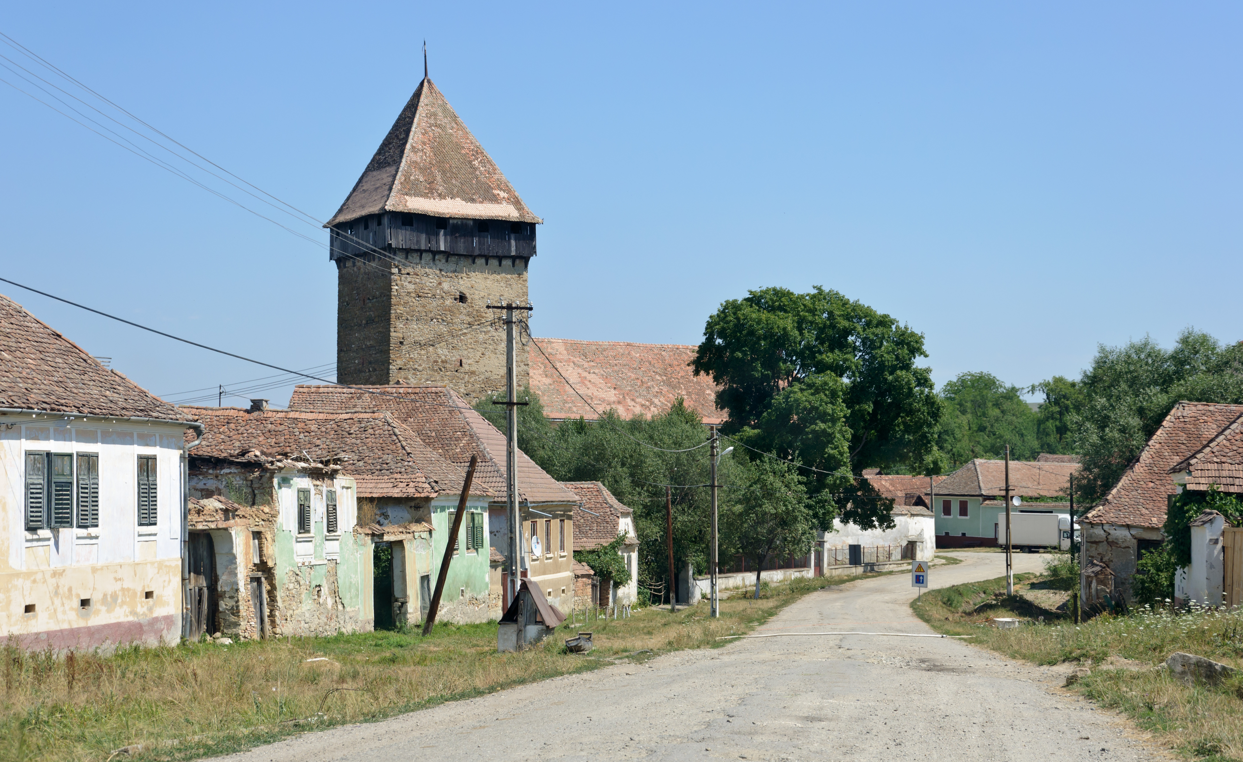 Bărcuț, village with a fortified church, in Braşov County, Transylvania, Romania.